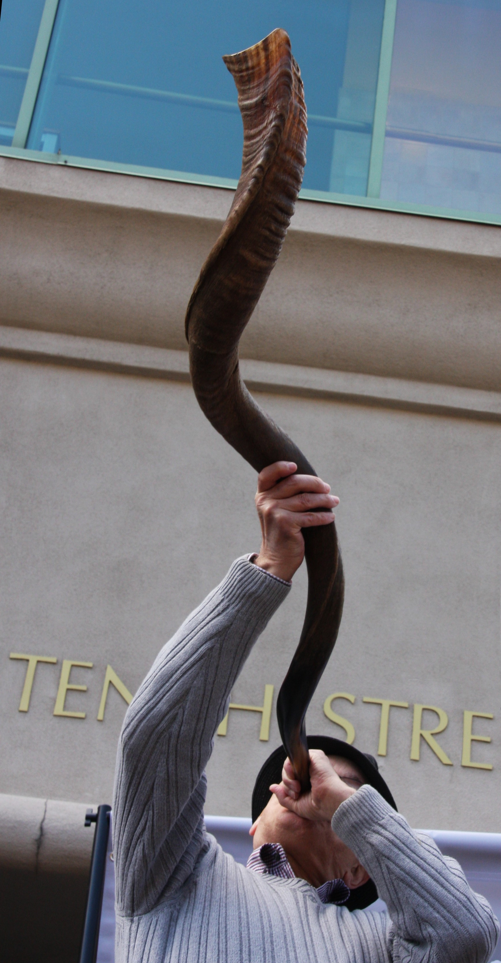 A man blowing the shofar at an outdoor public ceremony marking the 160th anniversary of Mount Zion Temple at its original location on East Tenth Street in Saint Paul, Minnesota, United States